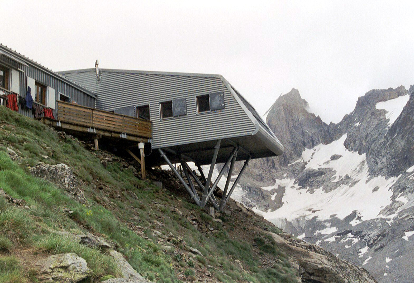 Refuge de la Selle, French Alps; Alt: 2673 m